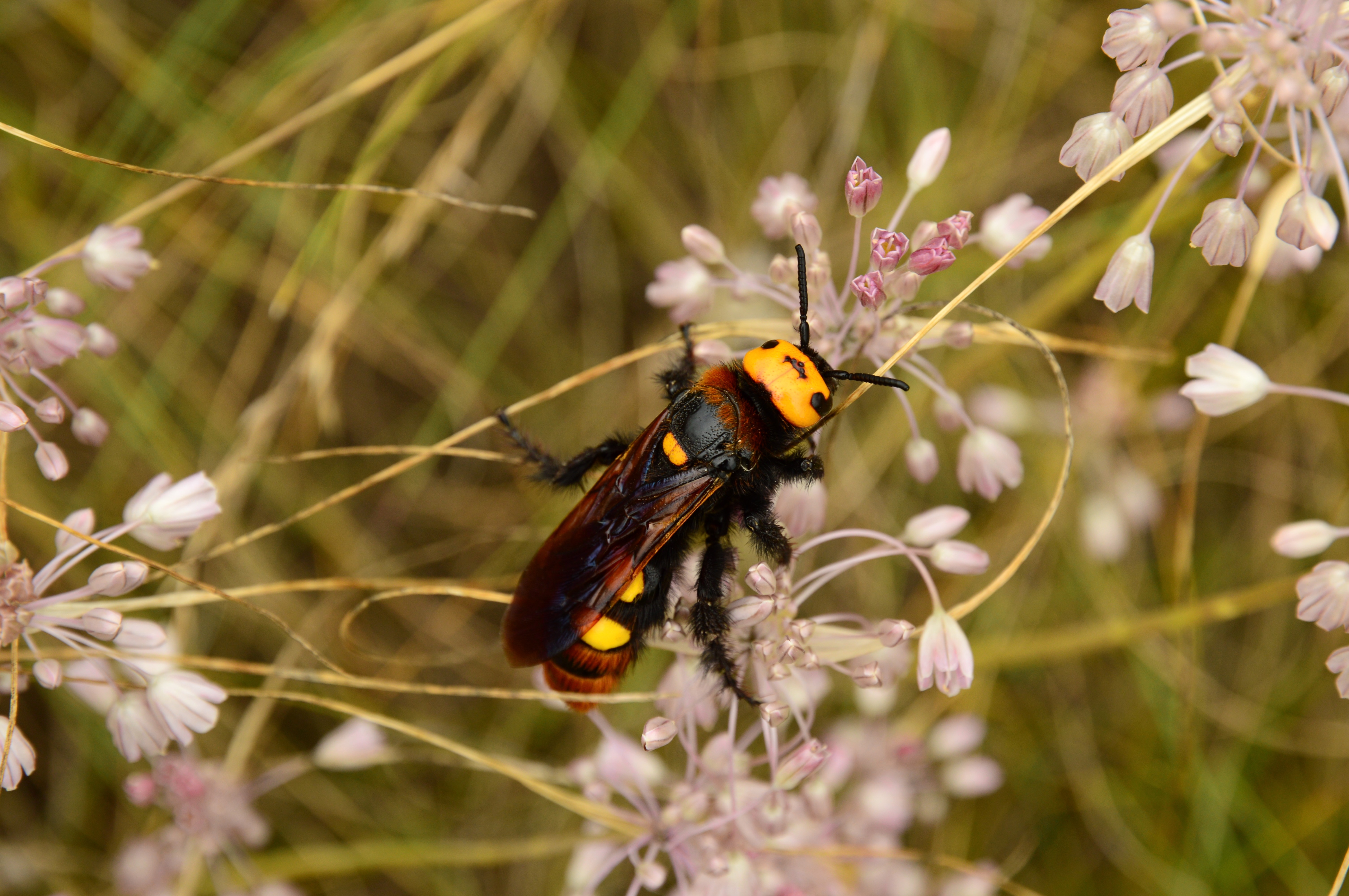 near Korsun-Shevchenkivskyi